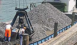 gravel being unshiped